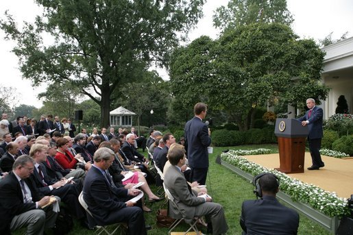 President George W. Bush listens to a question from the ABC White House correspondent Terry Moran on Tuesday, Oct. 4, 2005, during a news conference in the Rose Garden. Before taking questions, the President spoke briefly on his Supreme Court nomination of Harriet Miers and the continuing cleanup and reconstruction effort in the wake of hurricanes Katrina and Rita. White House photo by Eric Draper.